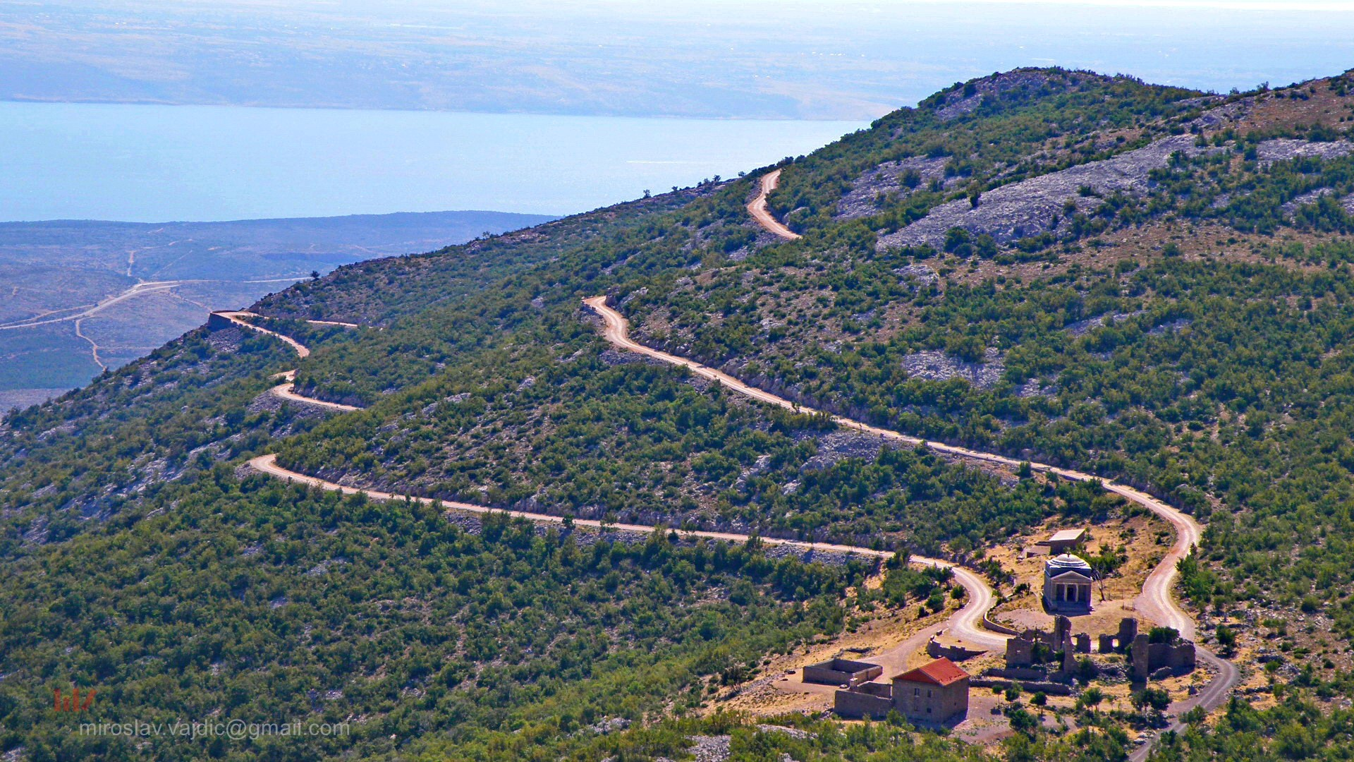 Serpentines of Masters Road.